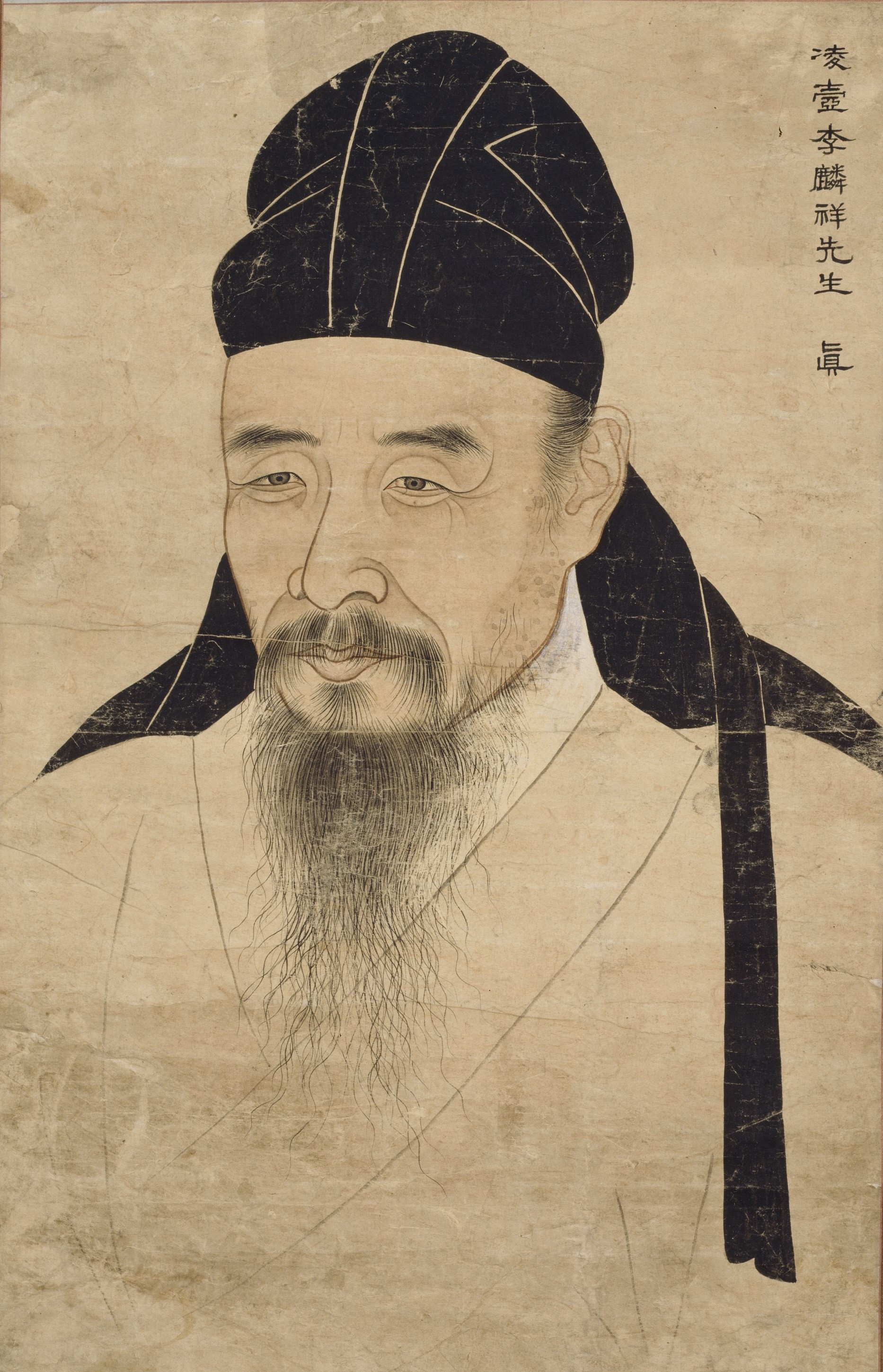 Portrait of Yi Insang, who was a painter and a government officer in the late Joseon period.